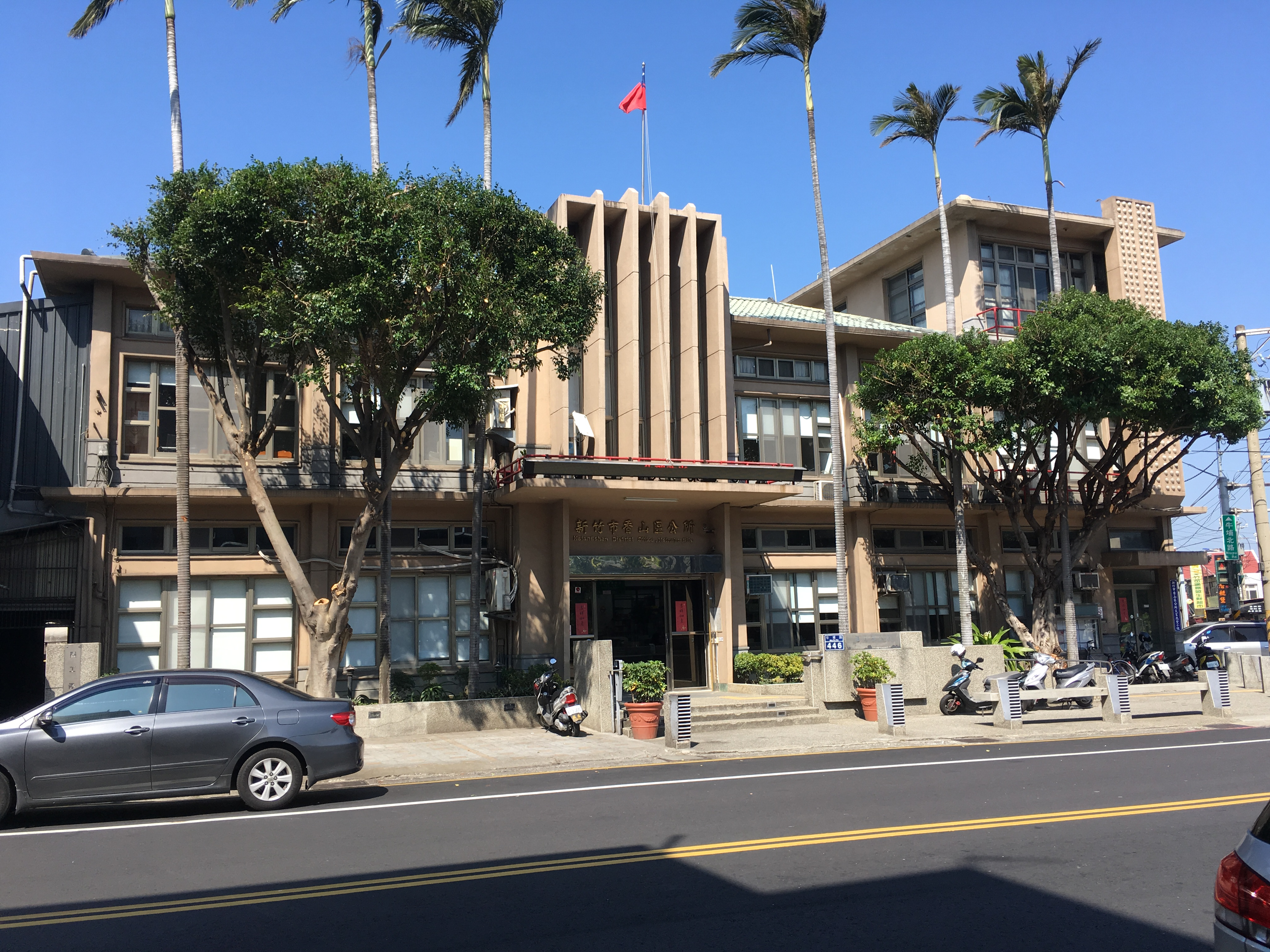 Siangshan District Office, Hsinchu City. 中文（台灣）: 新竹市香山區公所